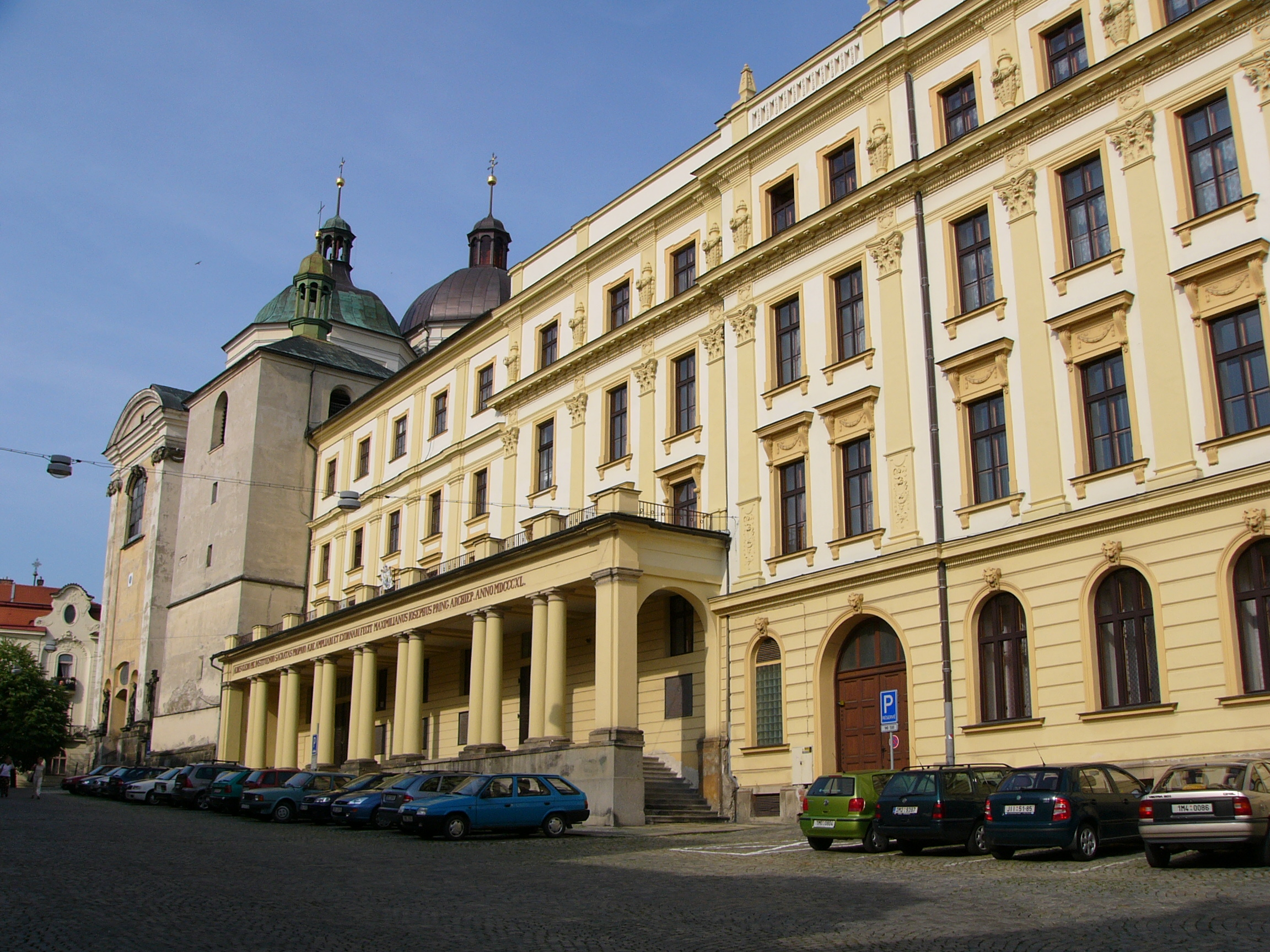 Building of ...... in Olomouc (Czech Republic).